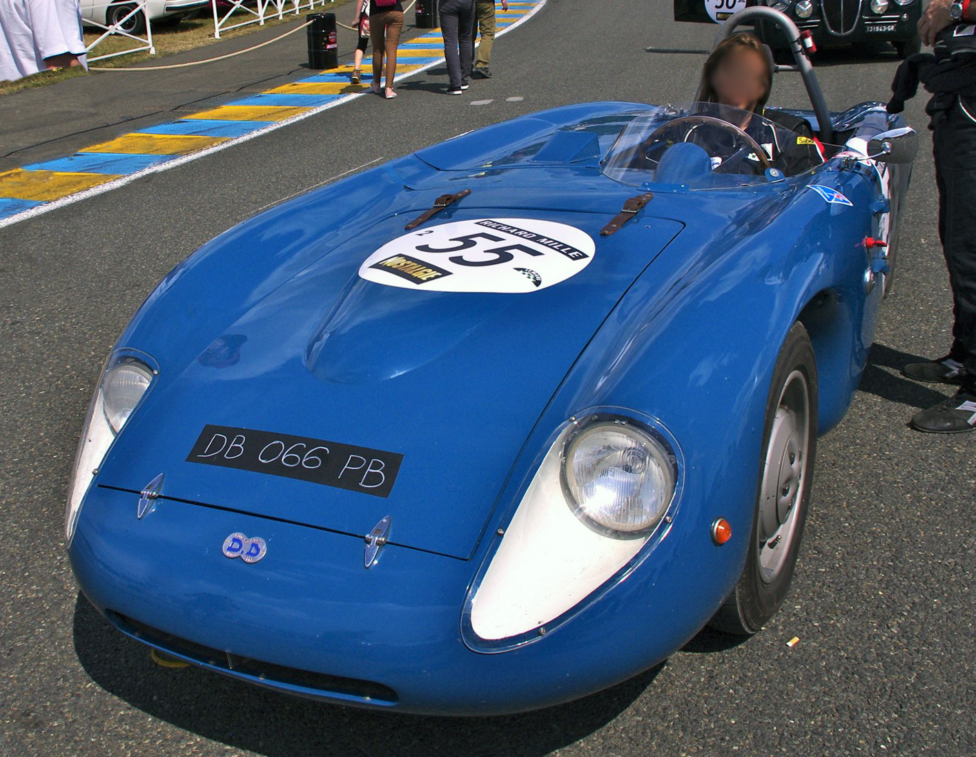 1954 DB Barquette 745cc (Panhard) at the Le Mans Classic 2014. This car was built for Géorges Trouis in 1954, on a central upside-down, U-shaped backbone frame with two outliers. It then wore the first HBR's bodywork for the 1954 Paris Salon (October). It was then reclothed yet again, in this barquette bodywork with which it competed at the tragic 1955 Le Mans. Competing as a "semi-works" entry, Trouis did not benefit from the magnesium wheels of the 800-series chassis DB themselves entered. Nonetheless he finished 20th overall, together with Louis Héry. Currently belongs to the Blanchard family, who compete quite a bit in historic racing. Finished 34th at the 2014 Classic.